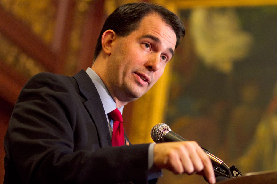 Scott Walker on February 18, 2011